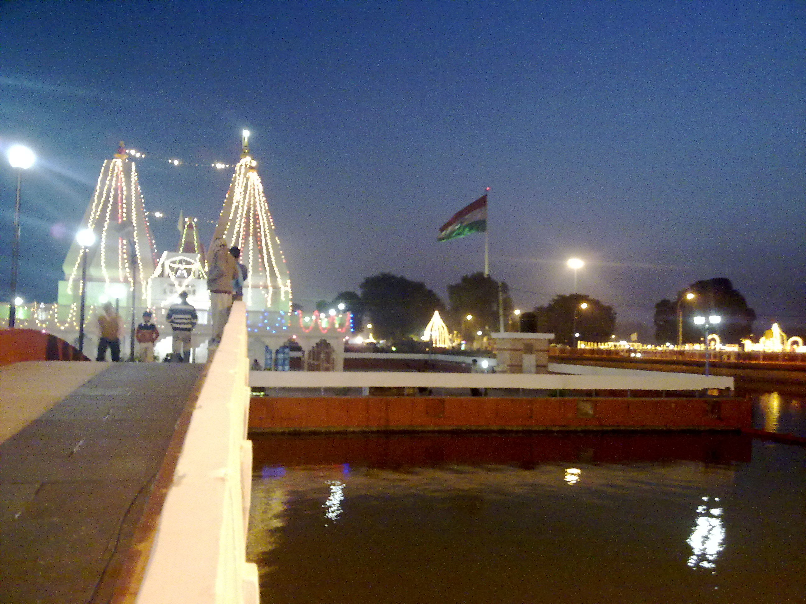 Night view of the Bramha Sarovar in Kurukshetra, India. In frame is the main temple. The National flag of India can be seen in the background.